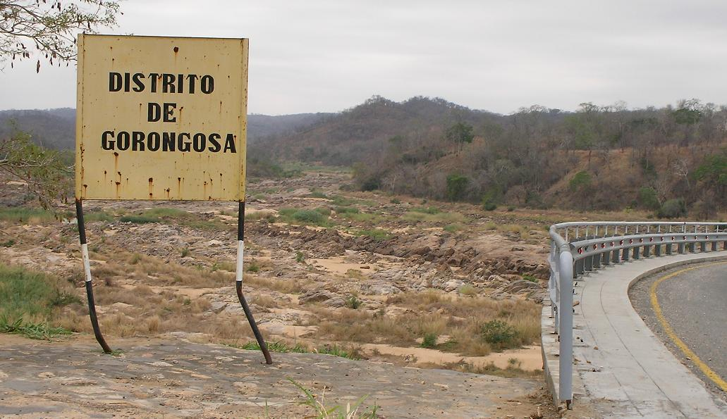 Travelling north on the main north-south highway of Mozambique (the EN1), entering the Gorongosa District. The bridge over the Rio Púnguè continues to the right of the photo. Note that river's low water level is typical of the late dry season.